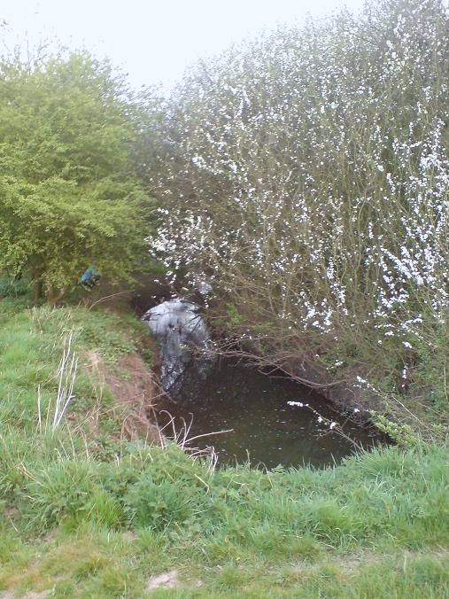 A photo of the Pingle Brook near Leamington Spa.